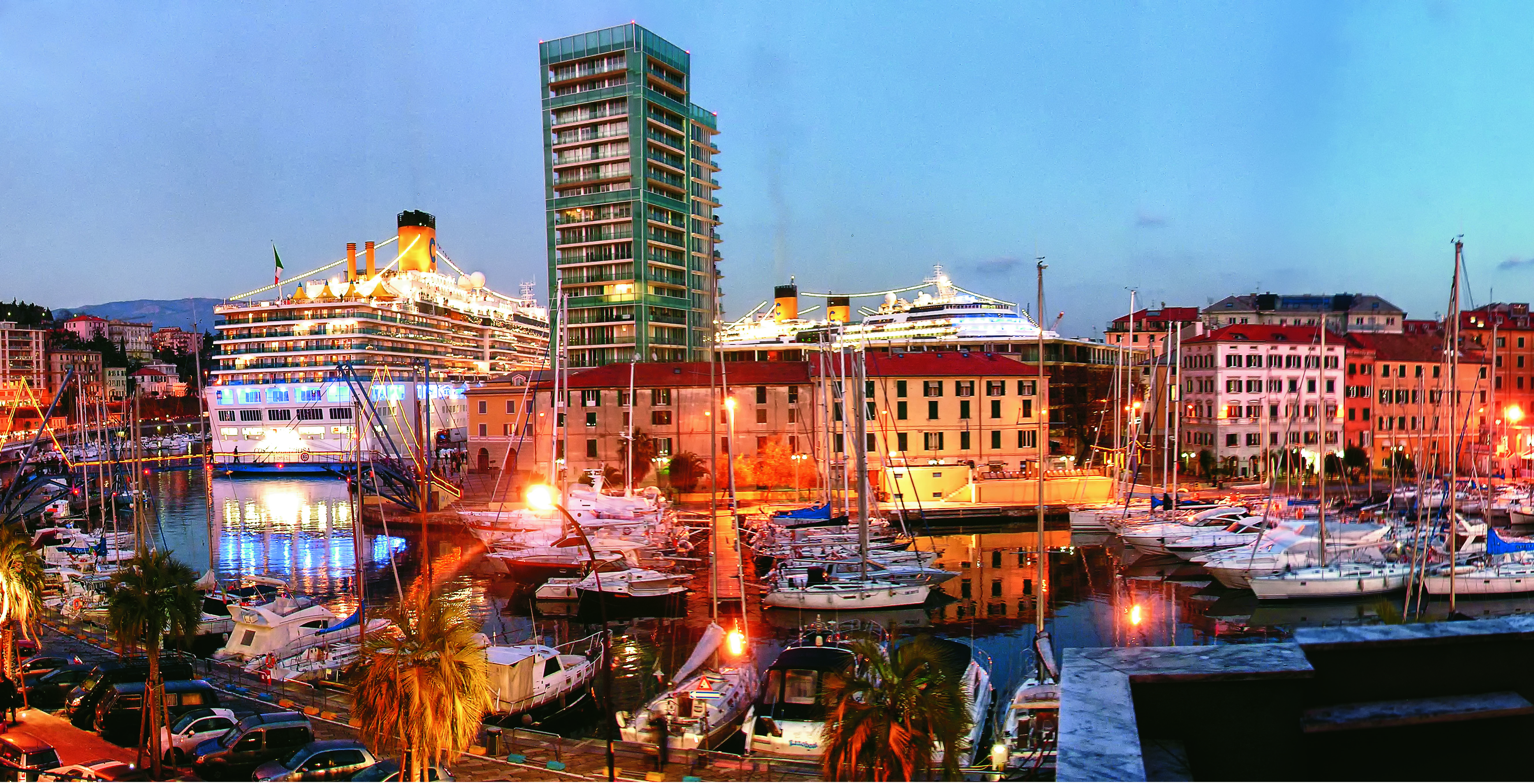 Savona, Italy